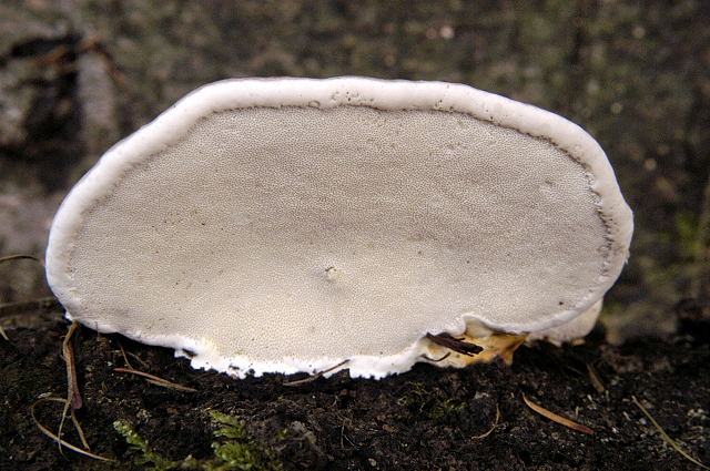 Fomitopsis pinicola from Commanster, Belgium. The determination of the species shown in this picture has been verified.